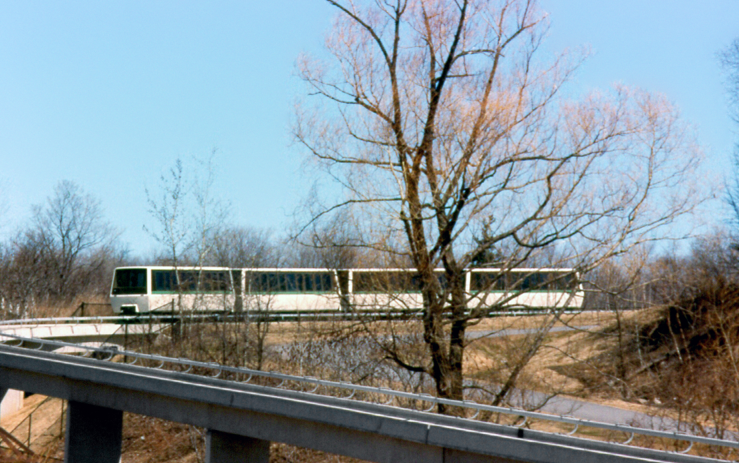 The Toronto Zoo Domain Ride in 1977. This monorail opened in 1976, and closed in 1994 after a train lost power and rolled backwards down the track into a second train, injuring about 30 people.